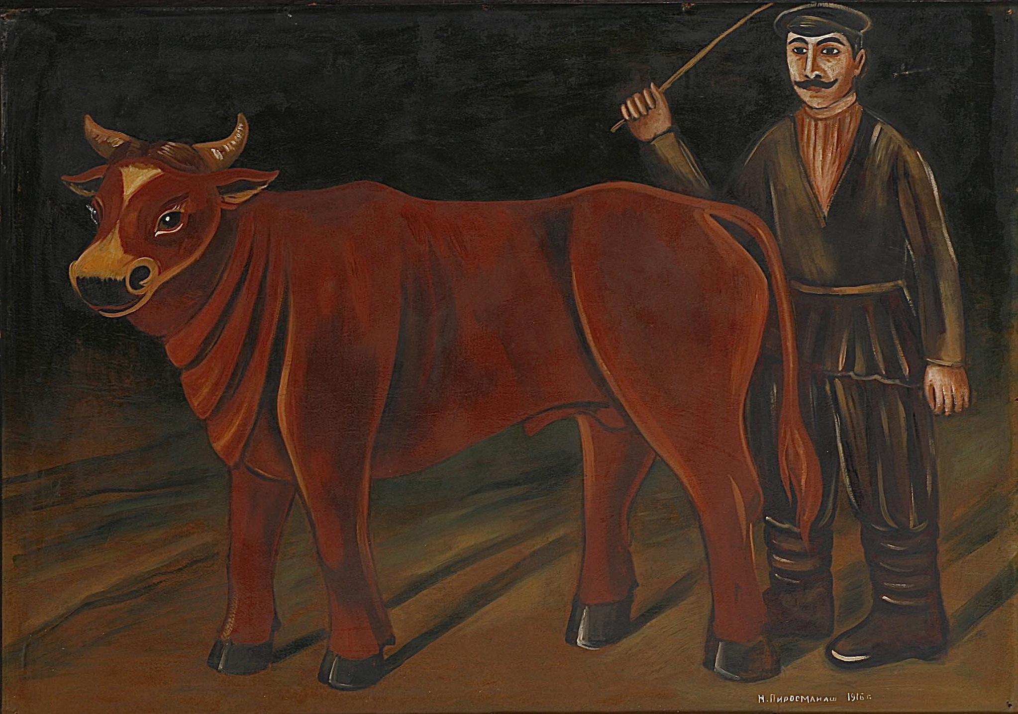 Nikolai Pirosmani-Shvili, "Farmer with a Bull," 1916